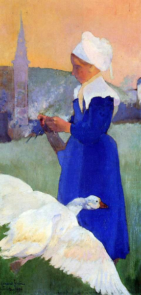 Gooseherd at PontAven